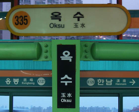 Oksu Station